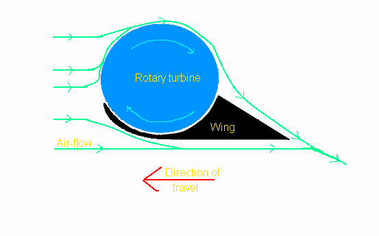 Schematic of a fan-wing cross-cut during flight.